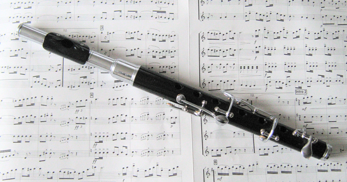 simple piccolo flute (fife) with 6 keys as it is used in the Carnival of Basel